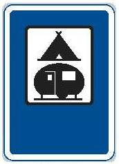 Road sign of the Czech Republic